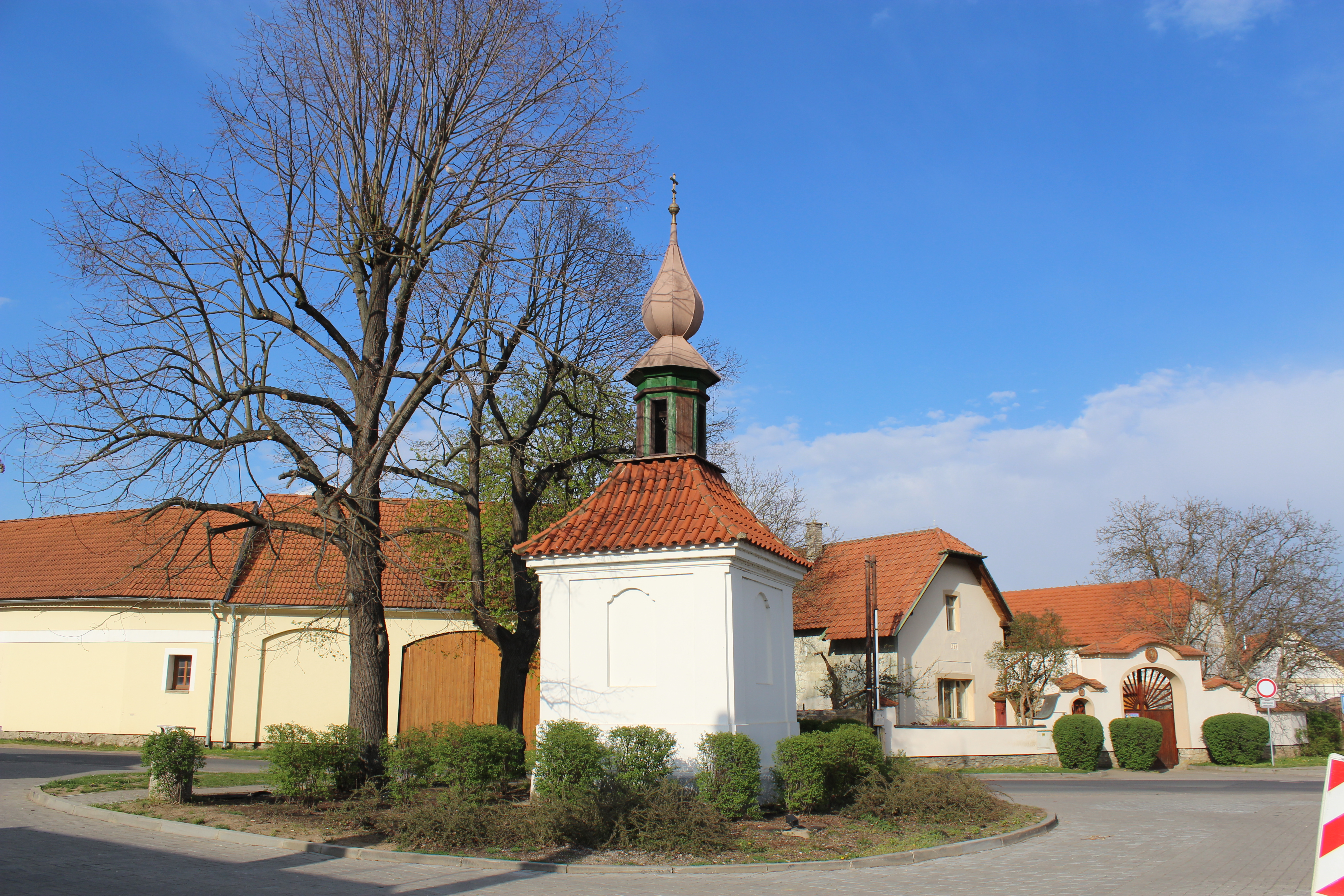 Hlásná Třebaň, Beroun District, Central Bohemian Region, Czech Republic. U Kapličky street, a chapel.